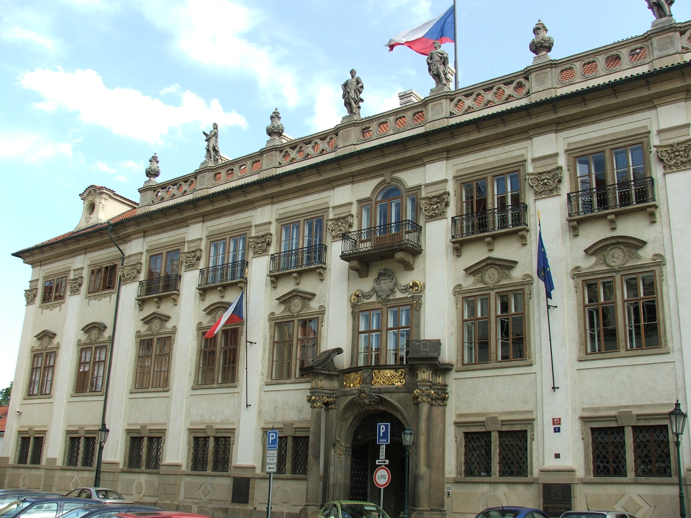 Nostic palace, Ministry of Culture of the Czech Republic